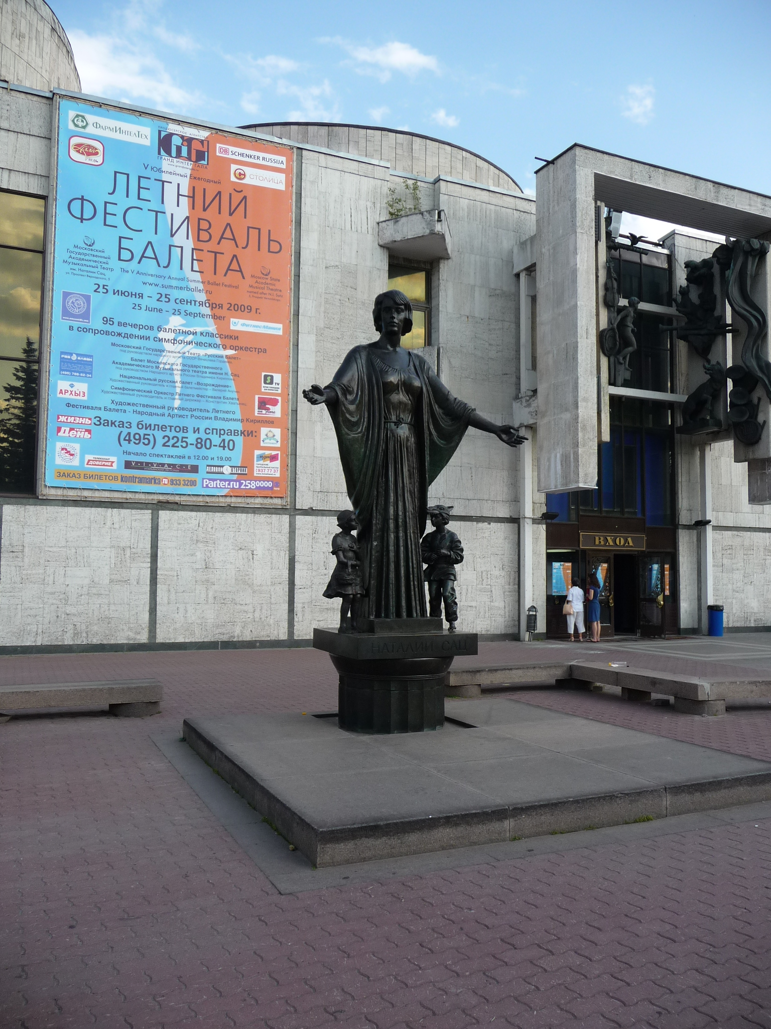 Theater-p1030382.jpg